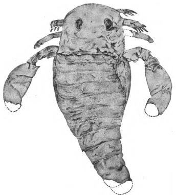 The Eurypterida of New York. Volume 1. New York State Museum Memoir 14, figure 1